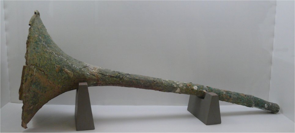 Bronze trumpet, Achaemenian era (550-330 BCE), Persepolis museum, Iran.